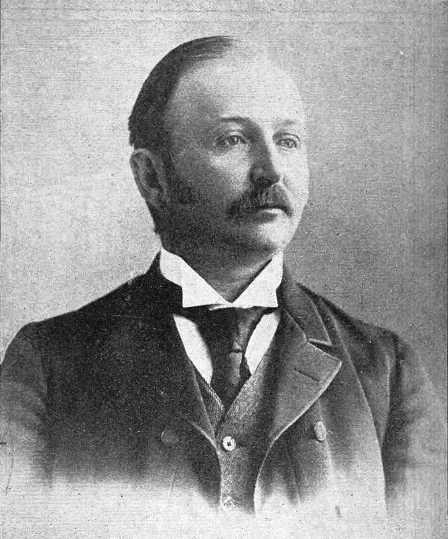 Simon-Napoléon Parent